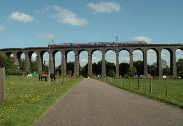 Digswell Viaduct as seen from Digswell Park Road It was designed by William Cubitt and took two years to build. Queen Victoria opened it in 1850. The viaduct is around 1,560ft (475m) long and comprises forty arches of 30ft (9.1m) span, and is 100ft (30m) high from ground level to trackbed. It is built of brick fired from brick clay quarried on site during construction.